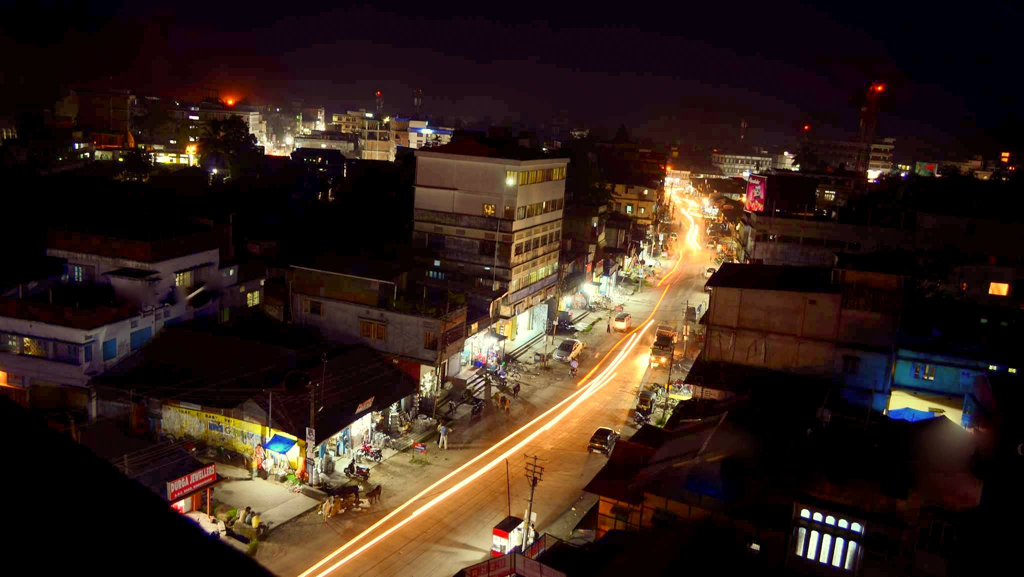 night view of bongaigaon city.